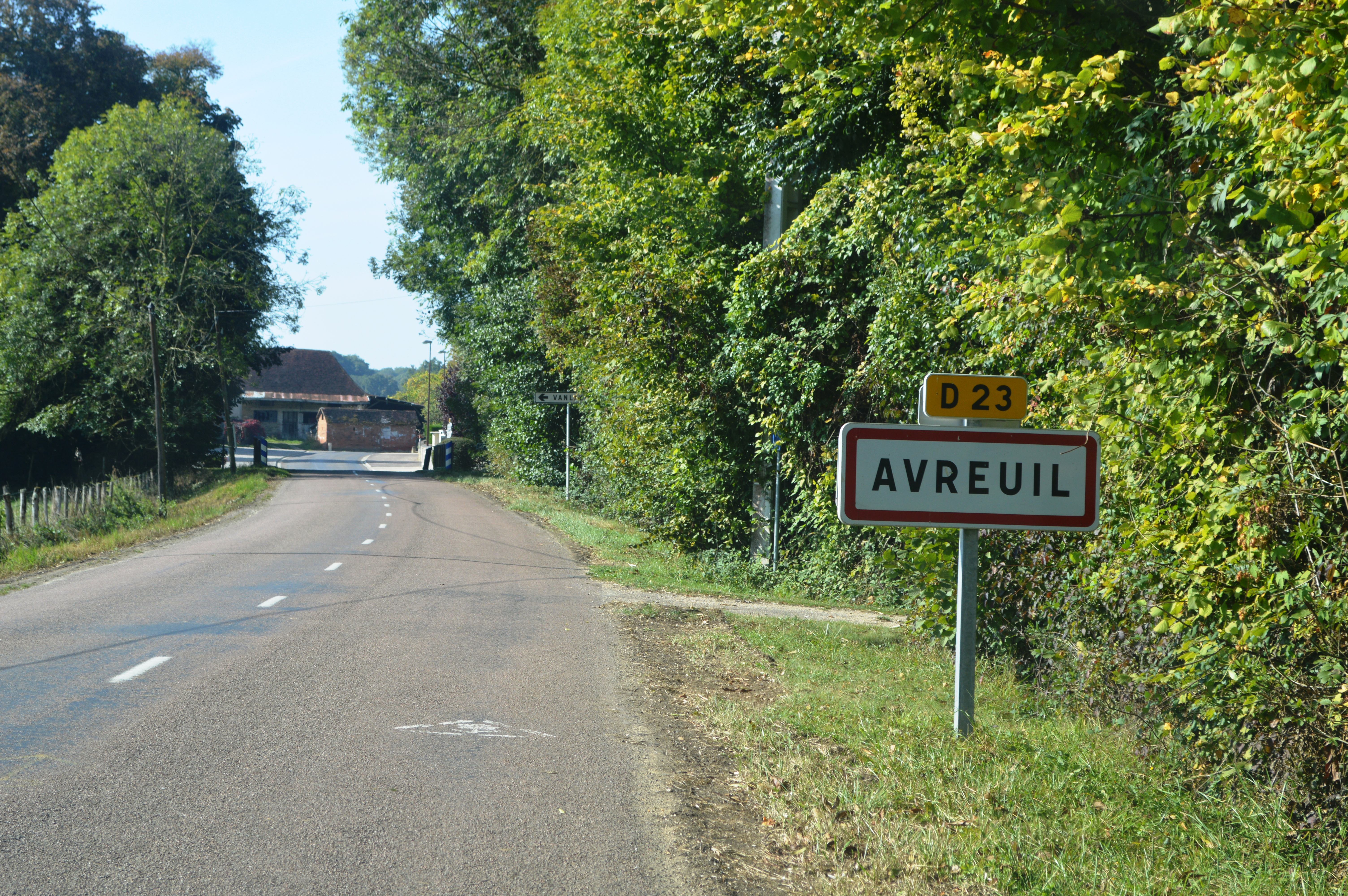 The entry to Avreuil